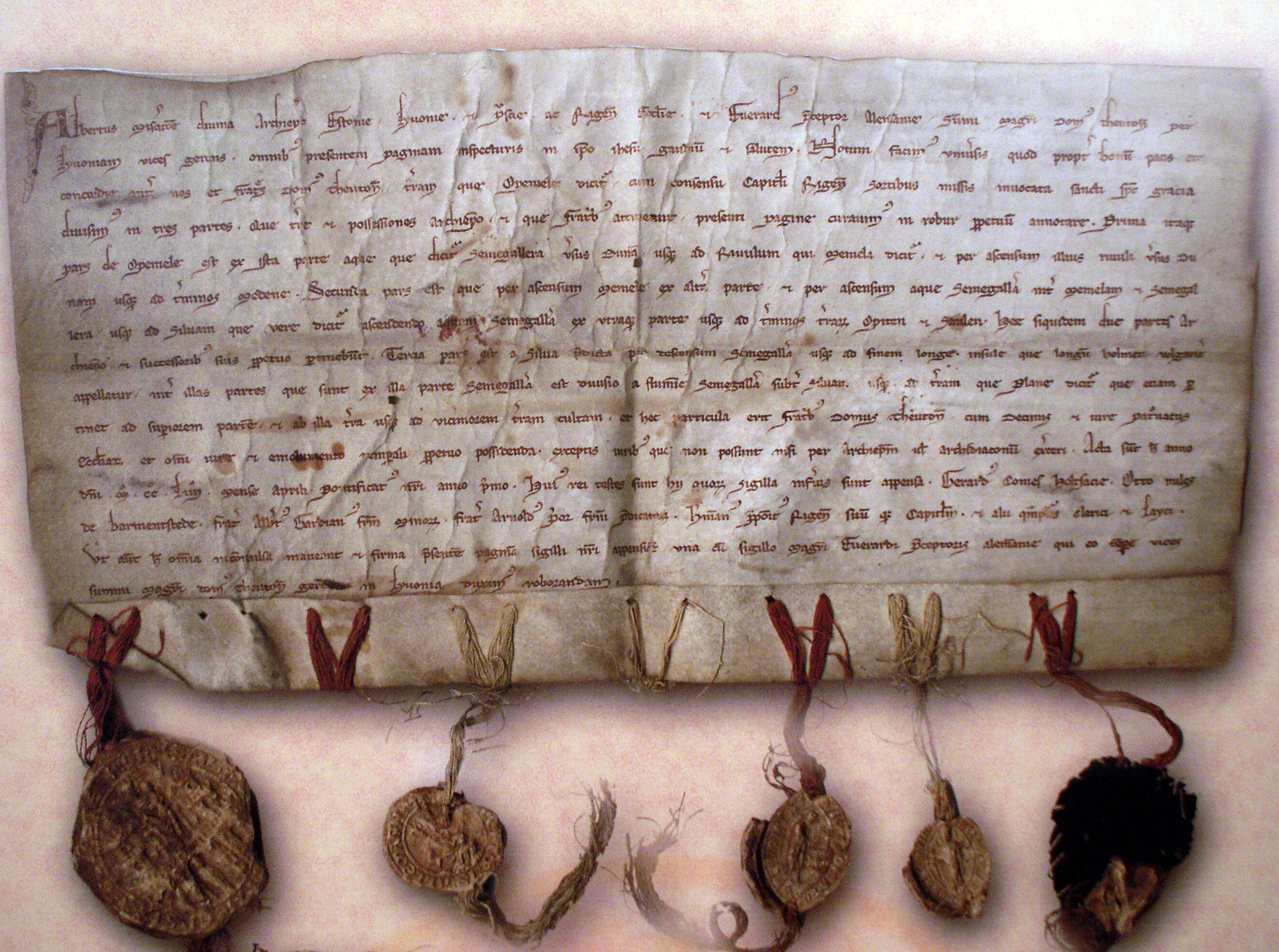 Treaty of Livonia 1254.